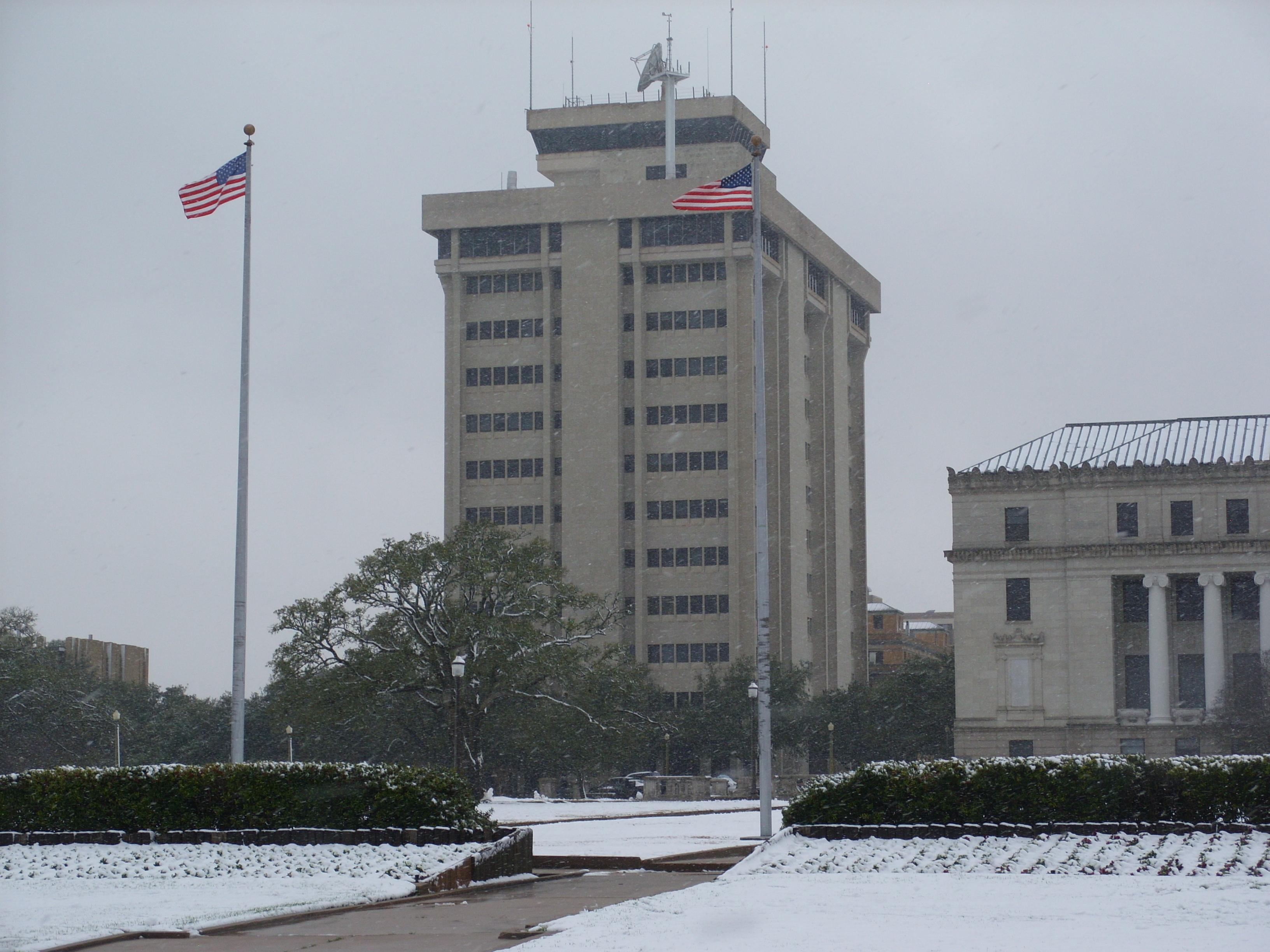 The Eller Oceanography & Meteorology Building at Texas A&M University, with the Aggie Doppler Radar in operation on its roof during a rare snow event in College Station, Texas on February 23, 2010.